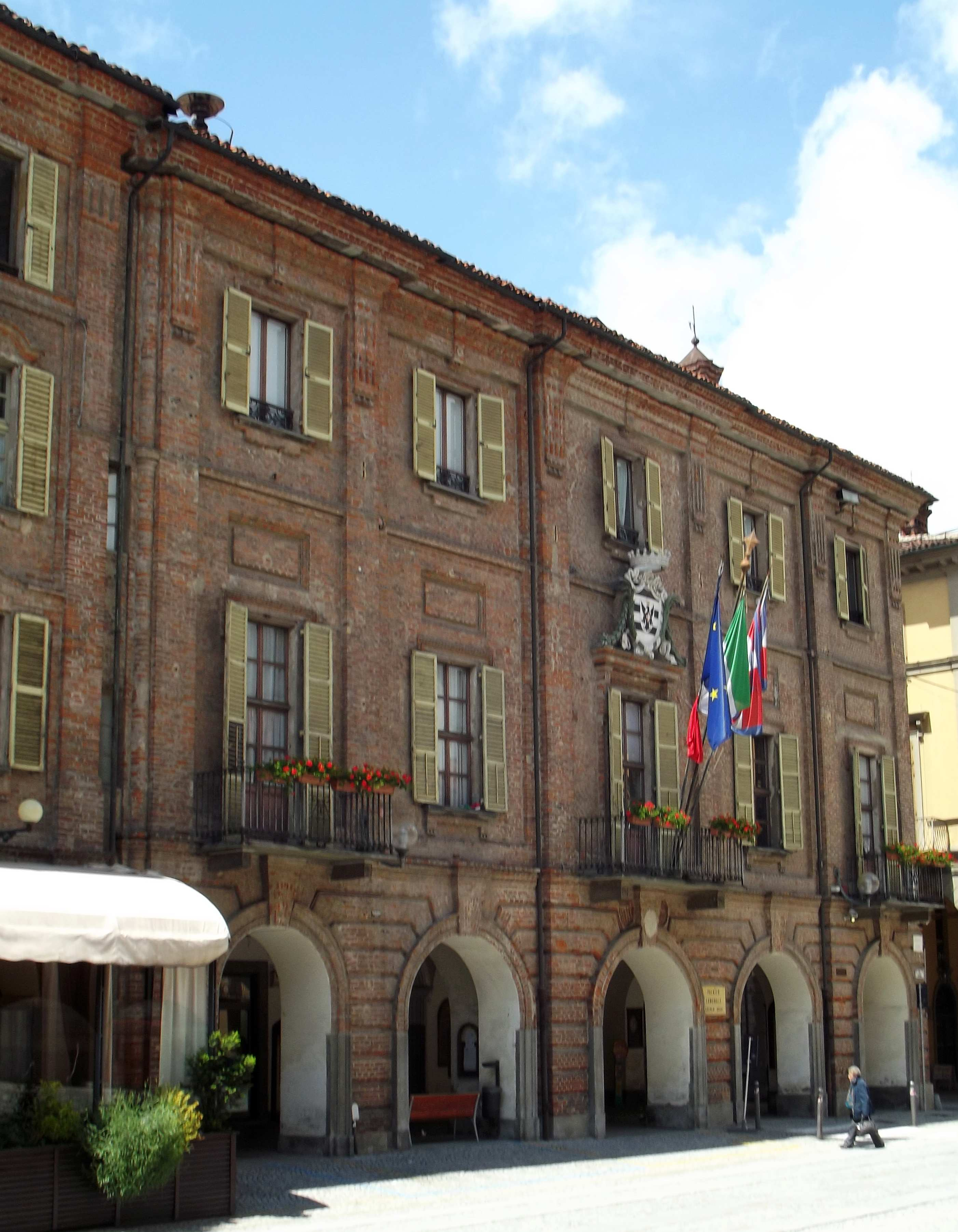 Fossano (CN, Italy): town hall